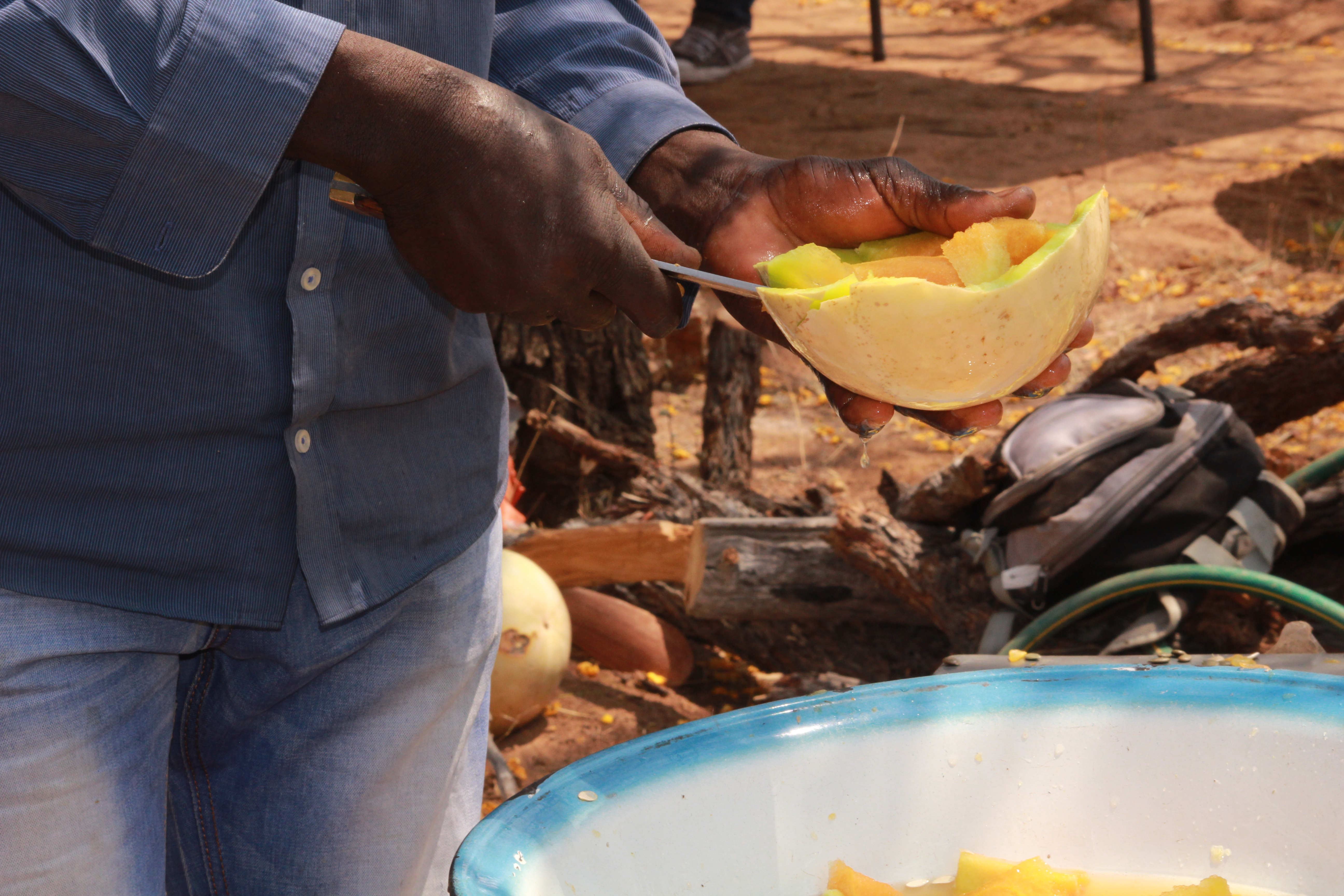 A man cutting lerotse (Wild melon) into pieces to be ready for cooking (Domboshaba Cultural 2017) This is an image of "African people at work" from Botswana